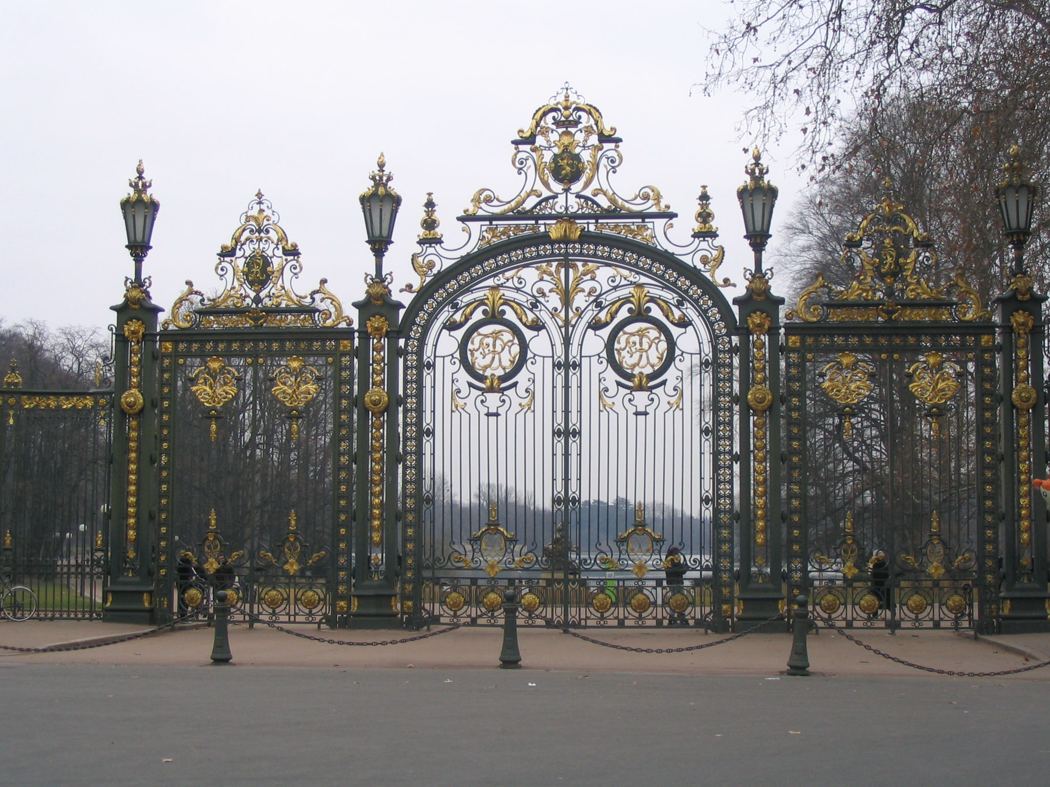 6th arrondissement of Lyon, 69006 Lyon, France